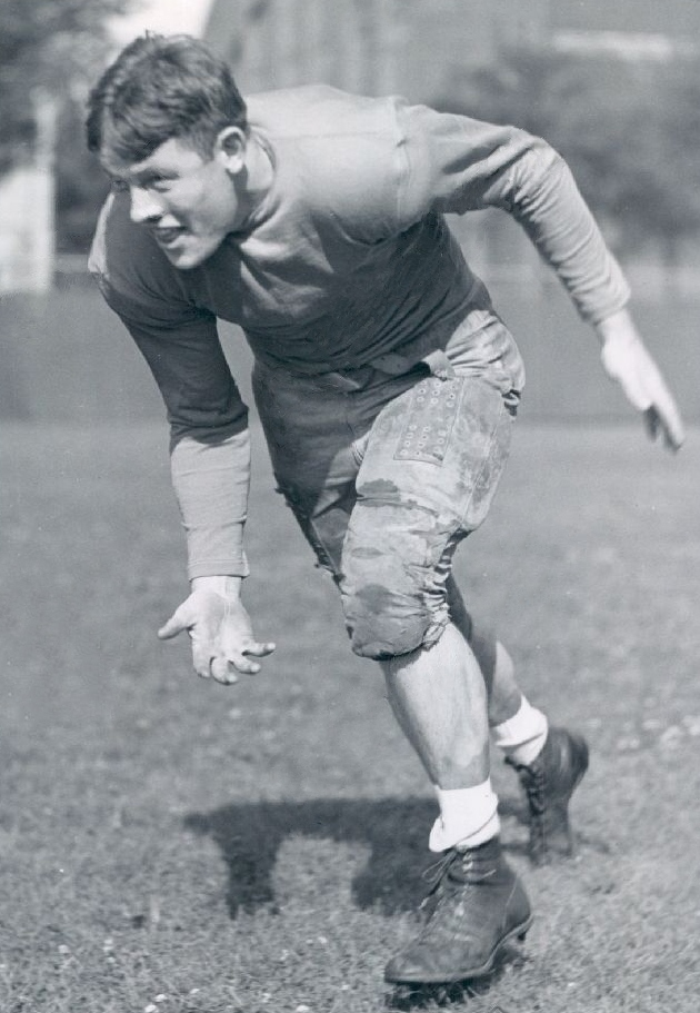 1940 Minnesota Gophers Football End Bob Fitch Press Photo